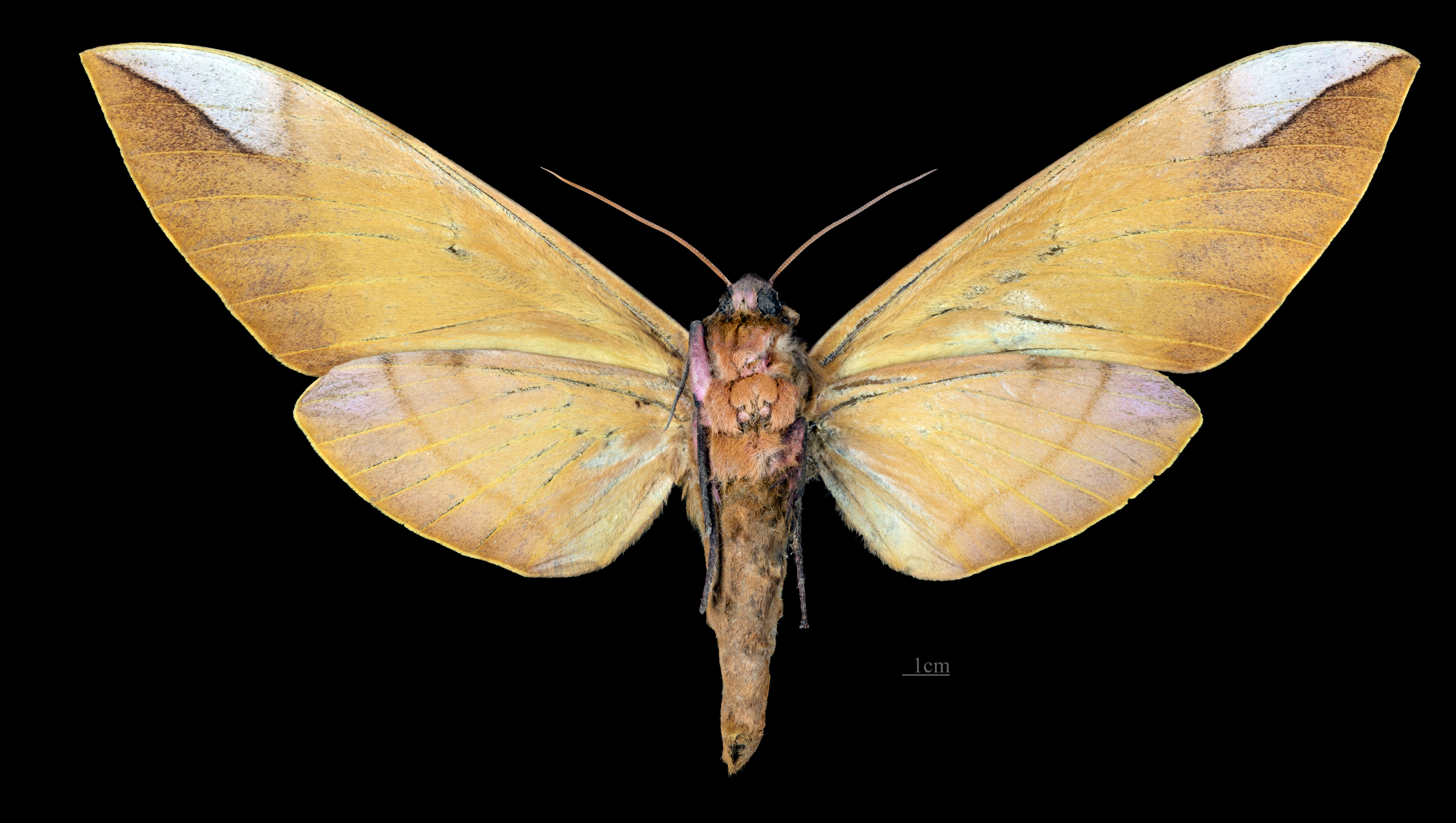 Clanis hyperion - △ Ventral side Collection of the Mathematician Laurent Schwartz